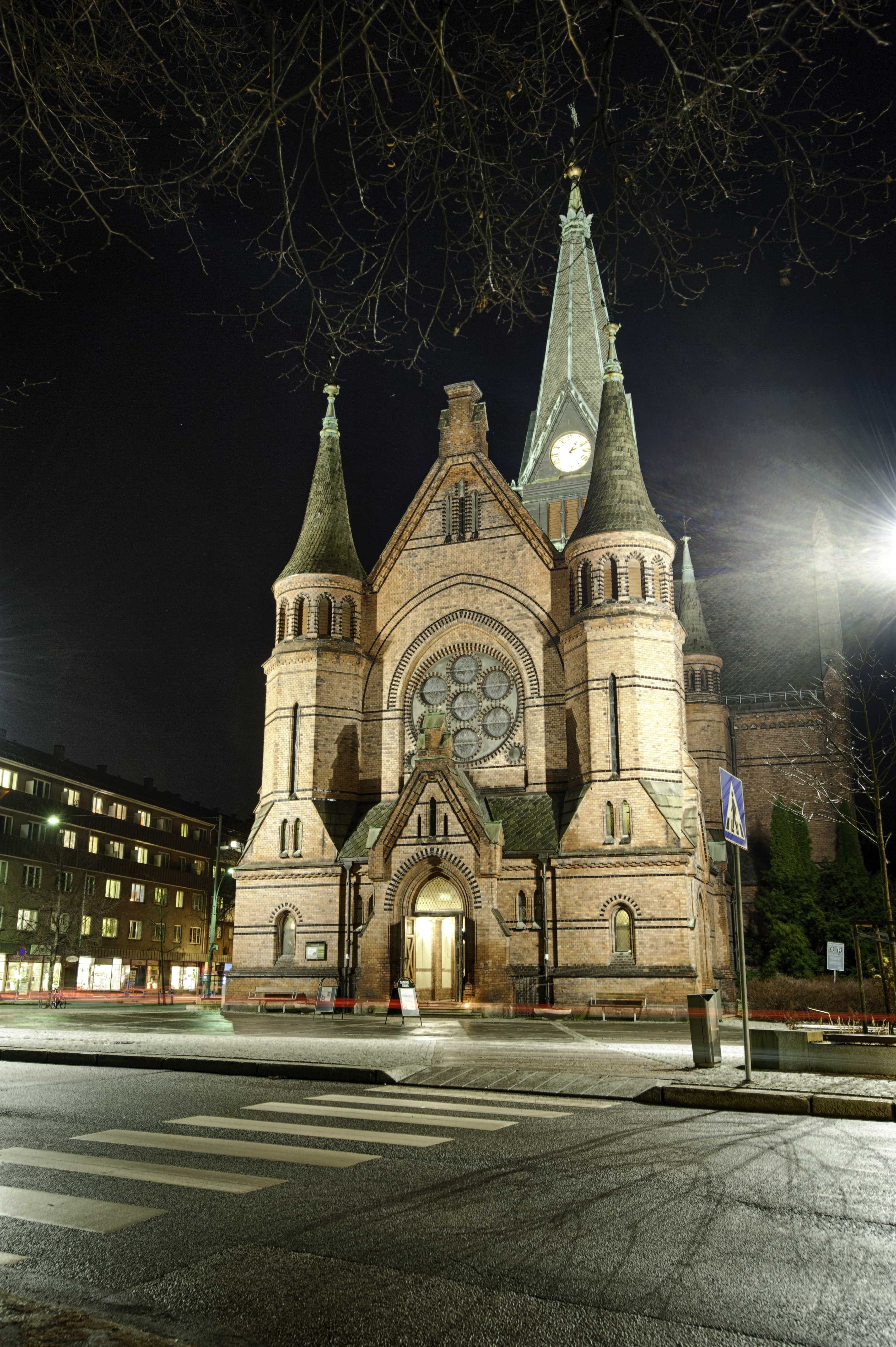 Sagene church late afternoon, from across the street